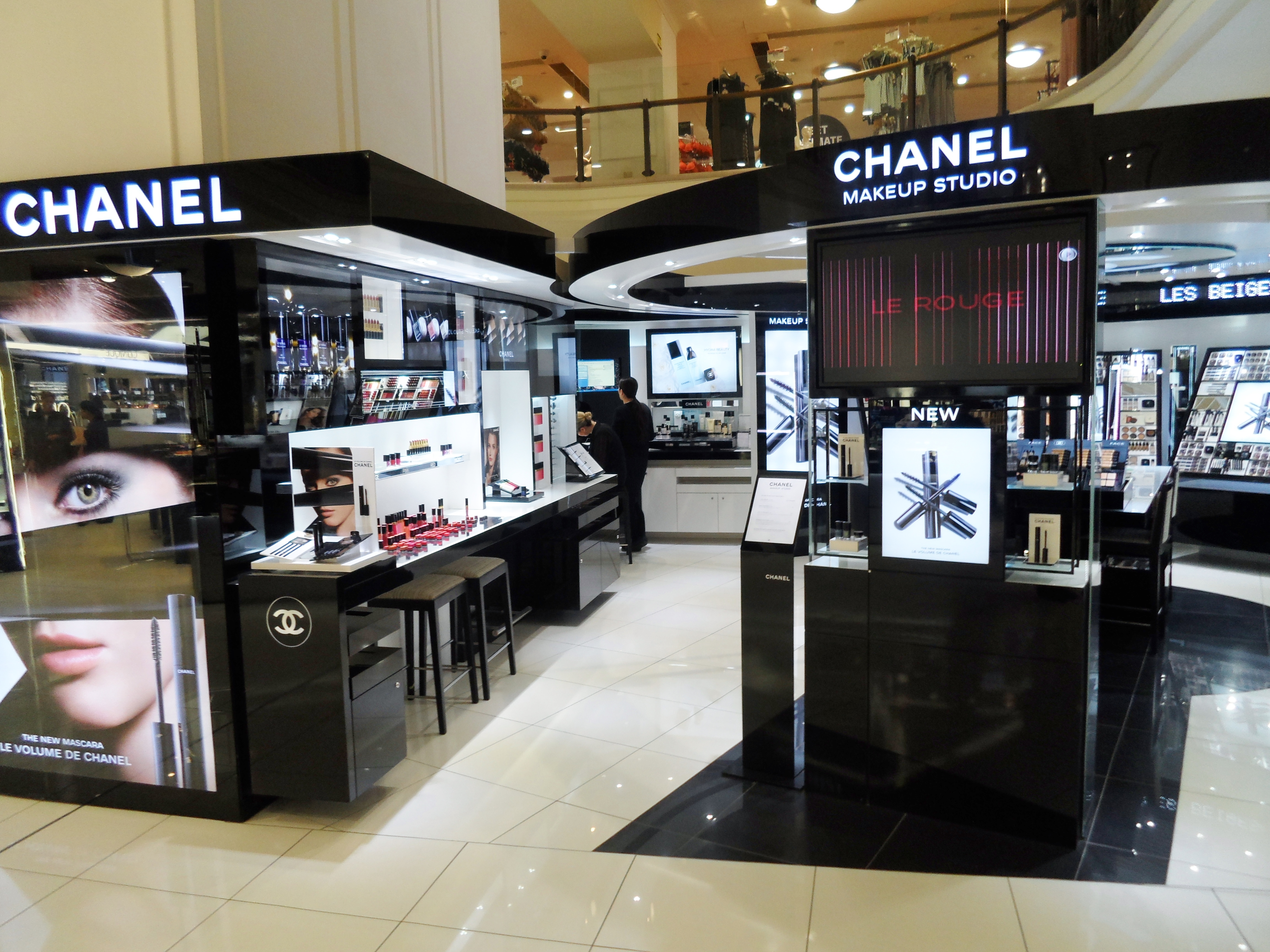 French luxury brand Chanel's Makeup Studio at the Sydney City branch of Australian department store MYER in 2013.